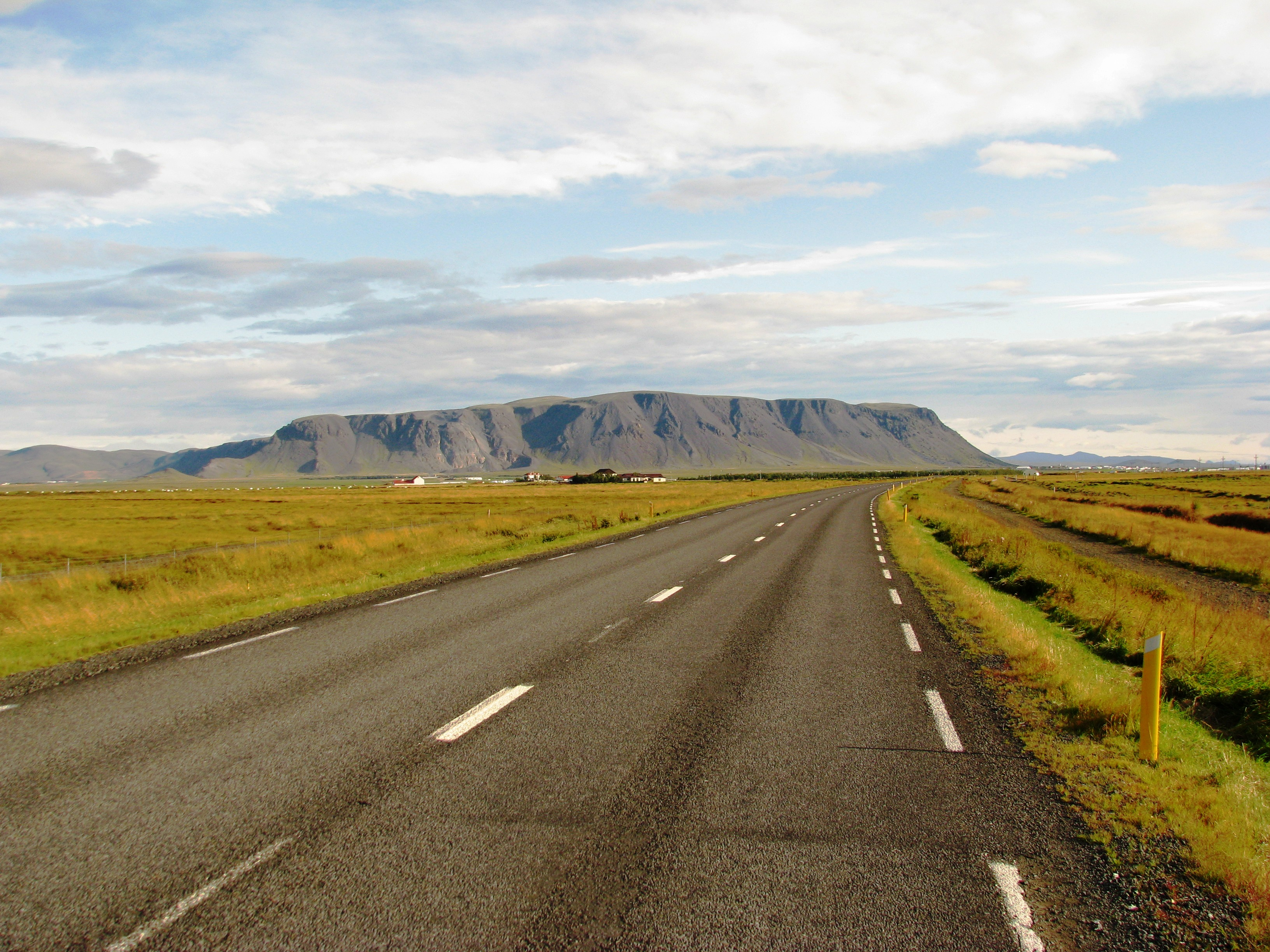 Ingólfsfjall, a mountain in Iceland.